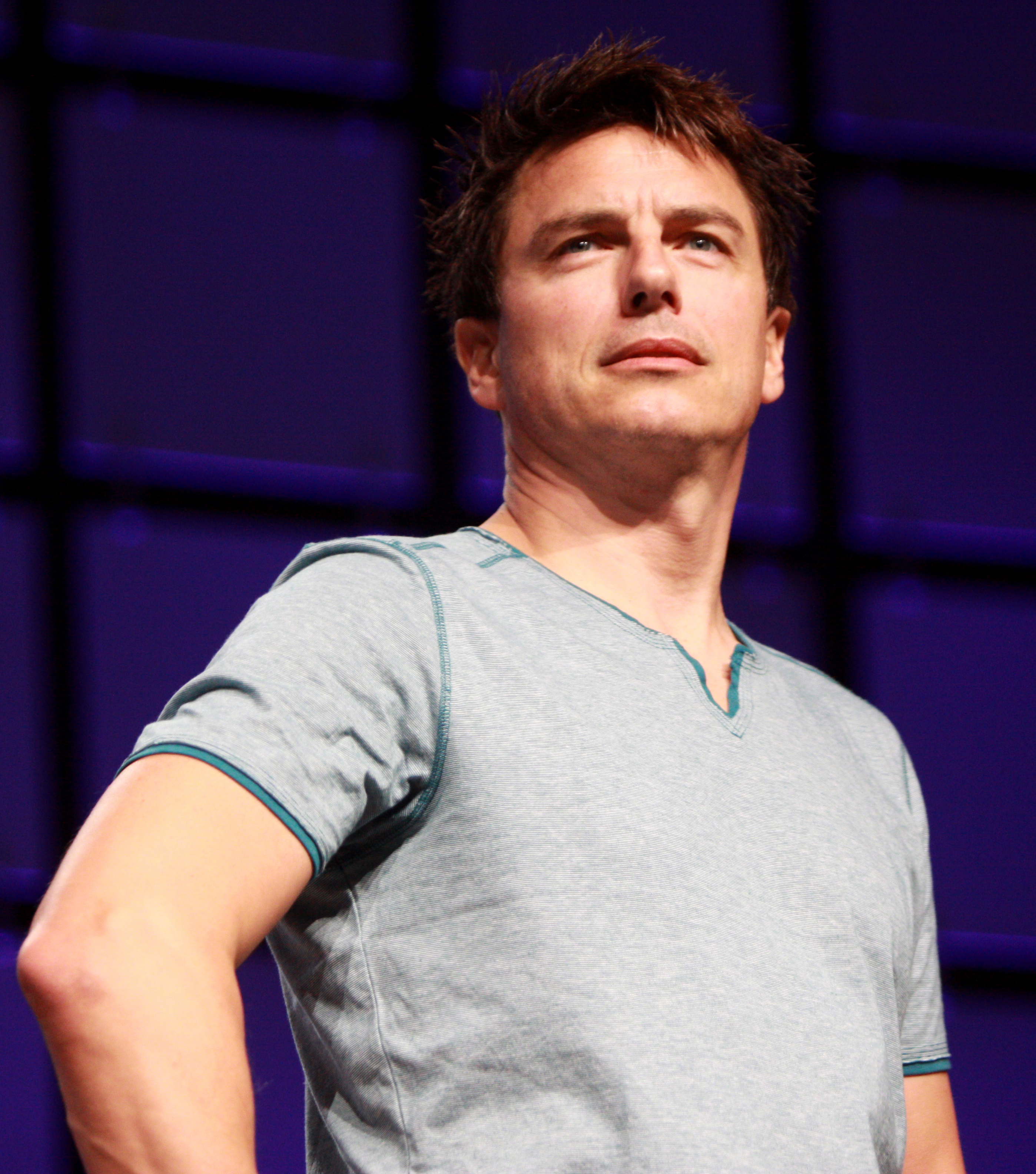 John Barrowman at the 2013 Phoenix Comicon in Phoenix, Arizona.